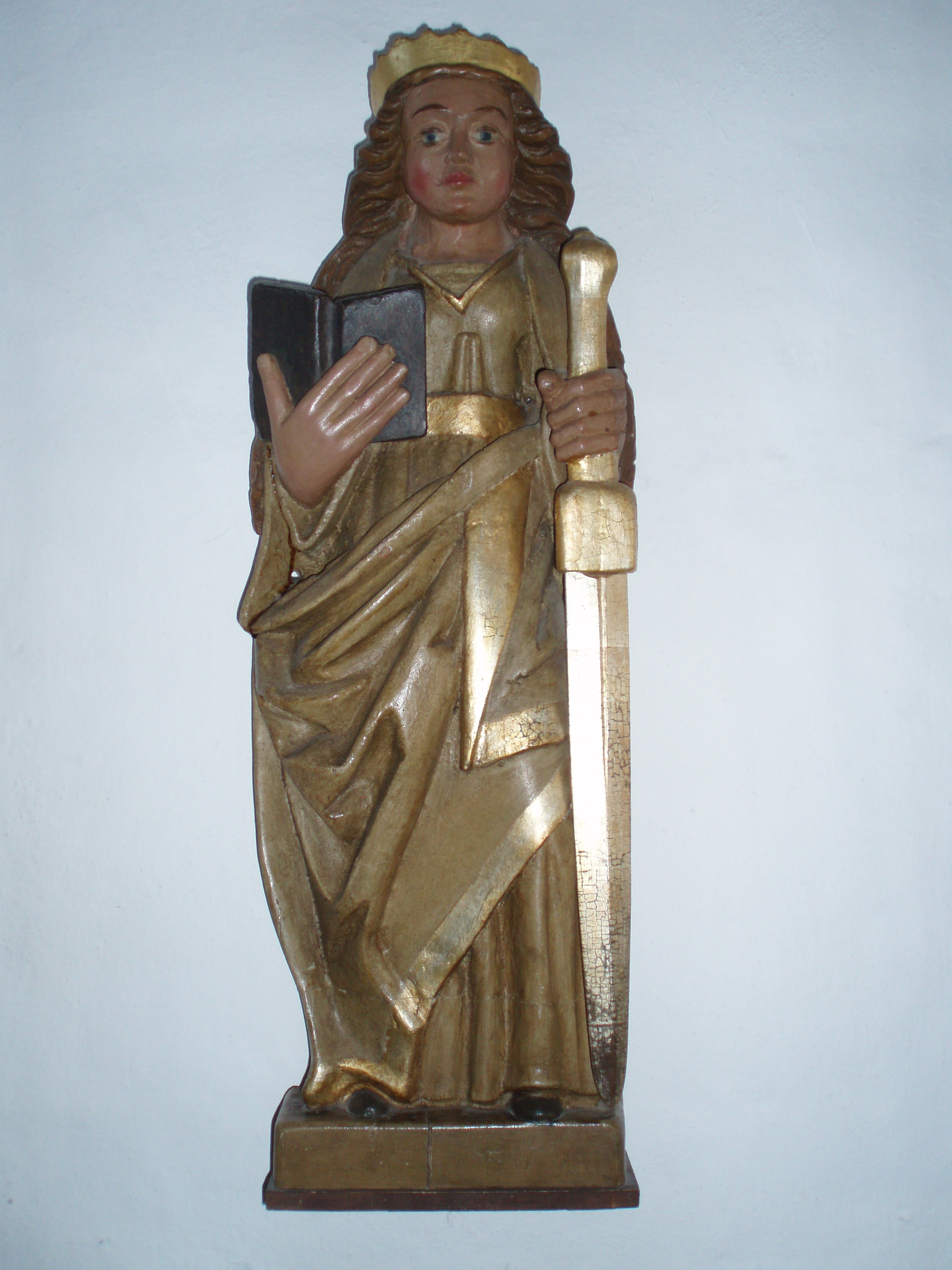 Jelling Kirke in Jelling, Denmark. Catharina from Alexandria Photographer: User:Brams